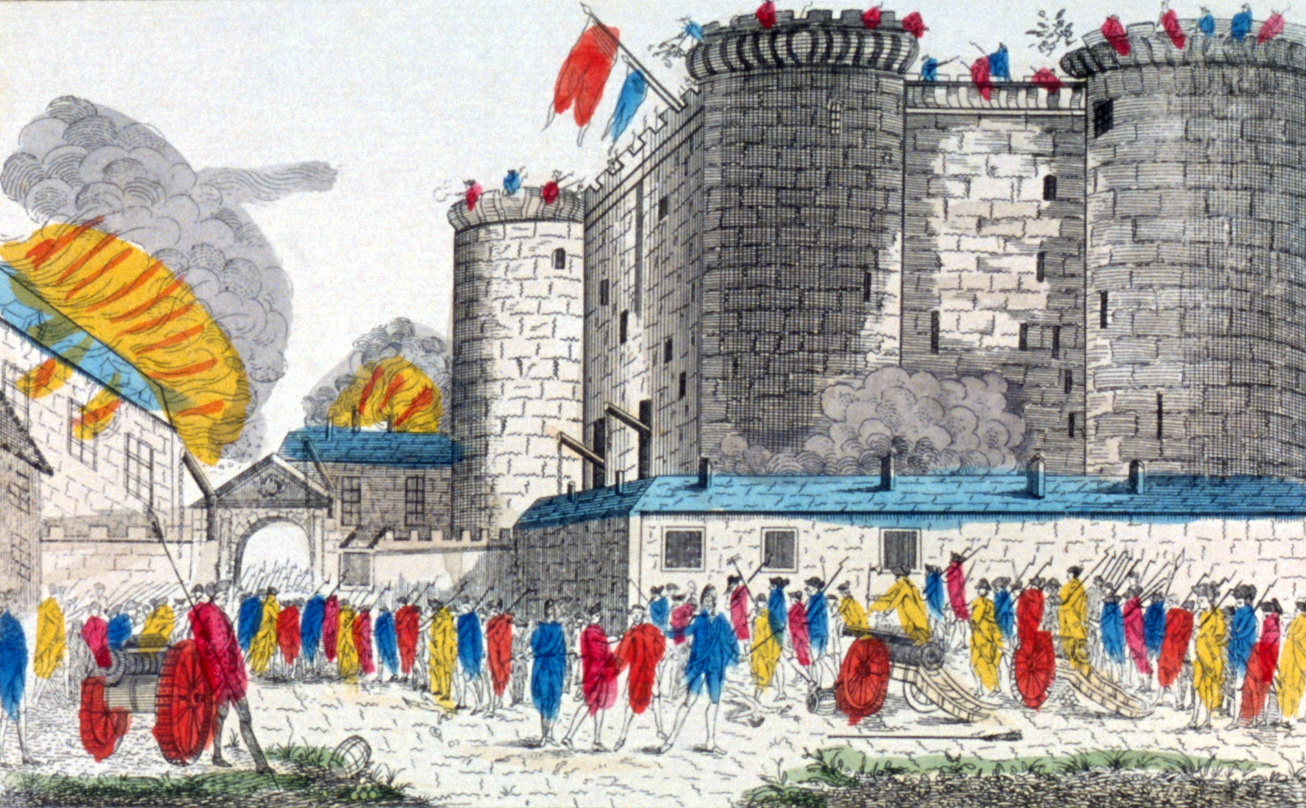 A 1789 French hand tinted etching that depicts the storming of the Bastille during the French Revolution.